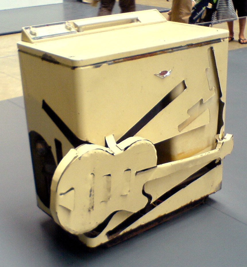 Bill Woodrow sculpture 'Twin Tub With Guitar' from 1981 in the 'Domestic Incidents' exhibition at Tate Modern